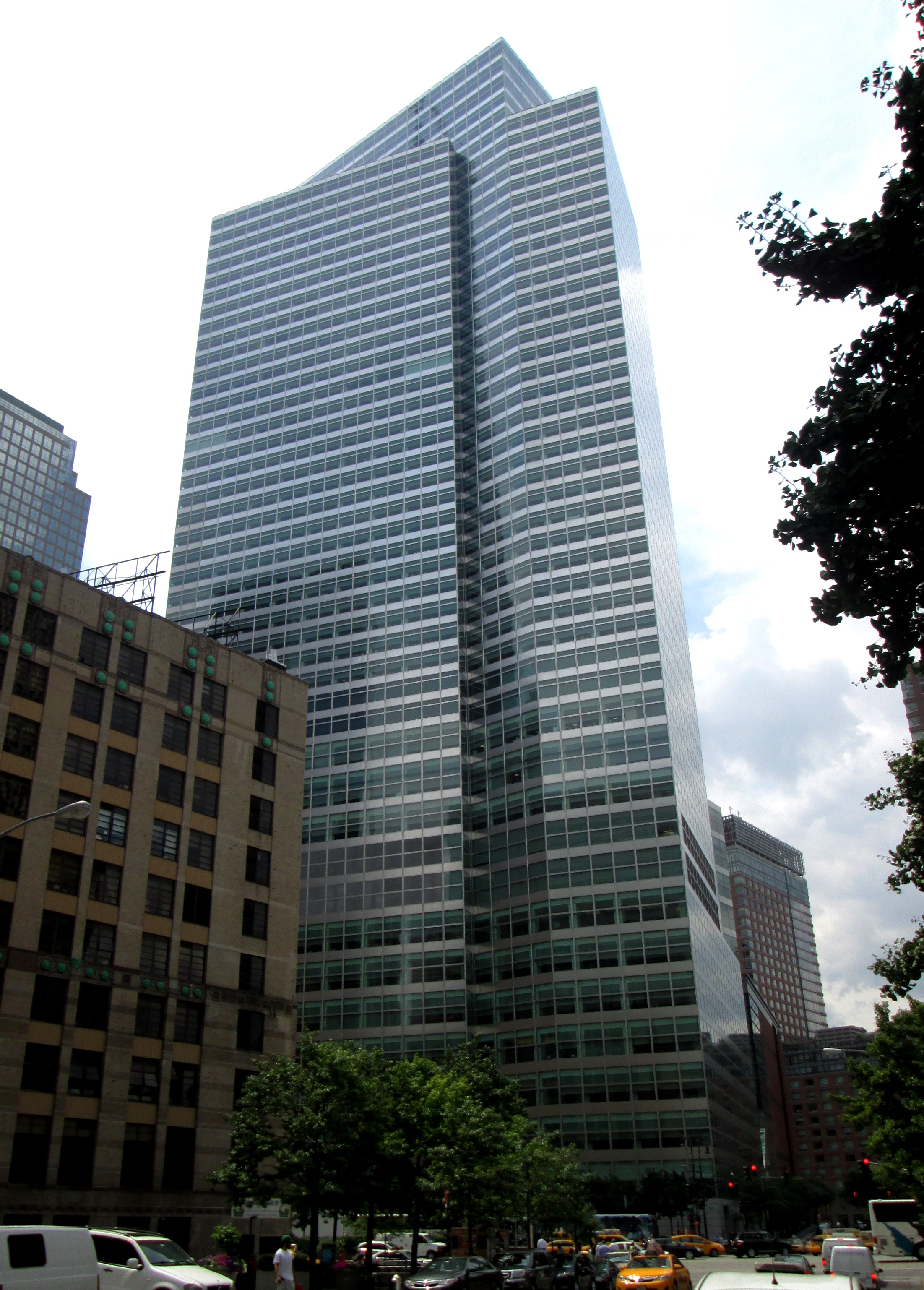 200 West Street also known as the Goldman Sachs Tower is located between Vesey and Murray Streets in the Battery Park City neighborhood of Manhattan, New York City. It was built in 2009 and was designed by Henry Cobb of Pei Cobb Freed & Partners along with Adamson Assocs. International. (Source: AIA Guide to NYC (5th ed.))